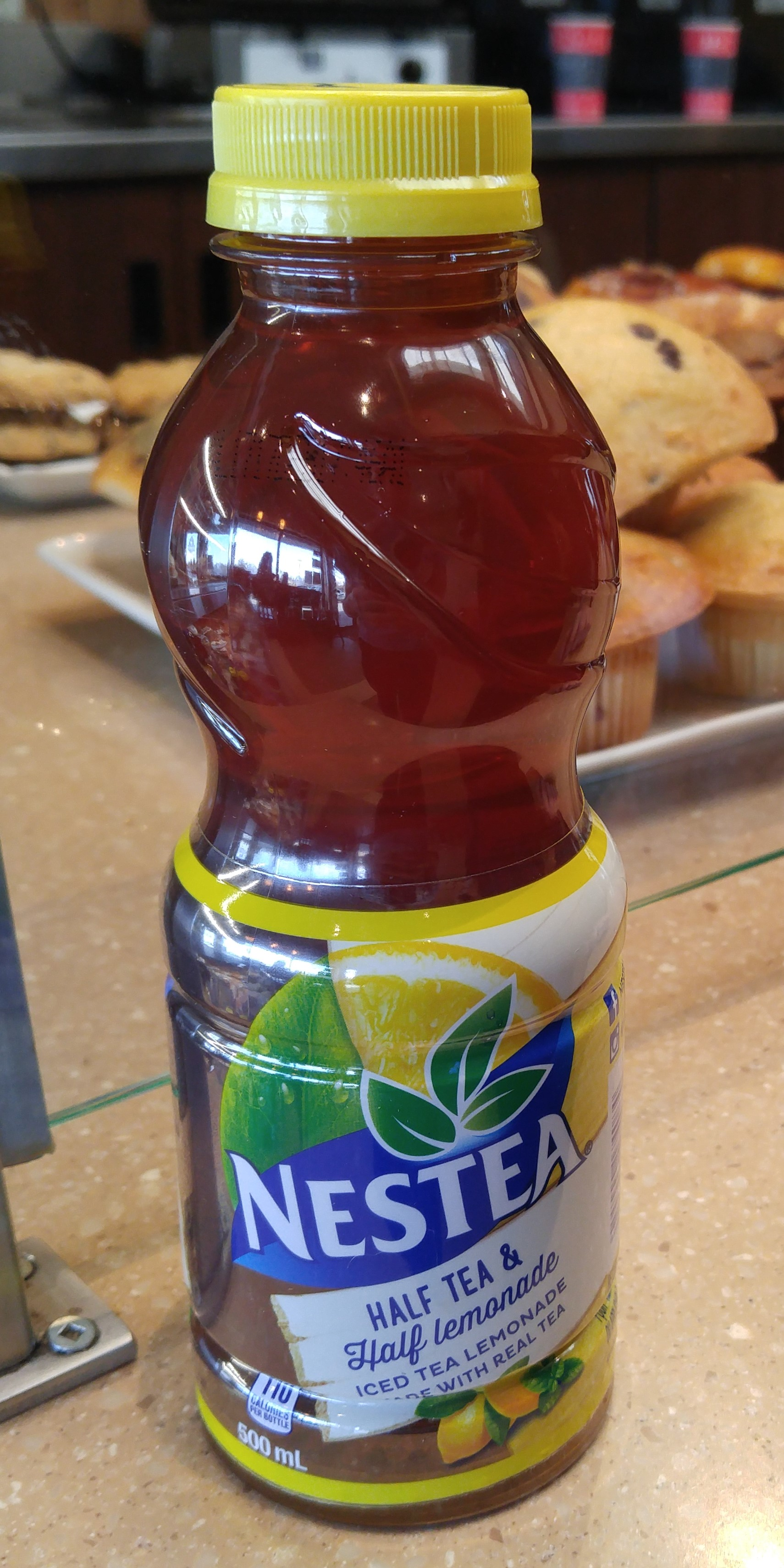 A bottle of tea lemonade nestea